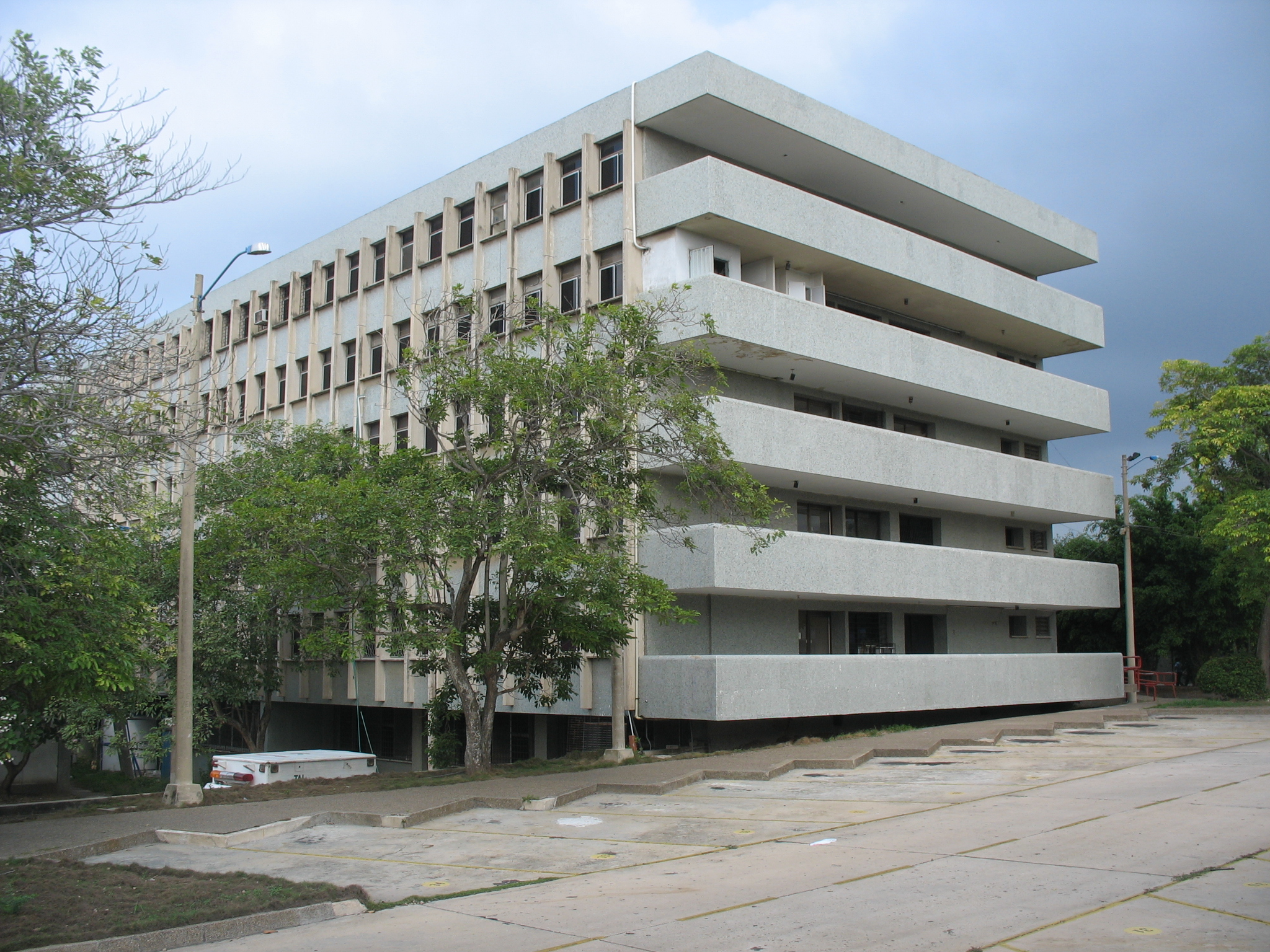 Barranquilla - Seguro de Los Andes